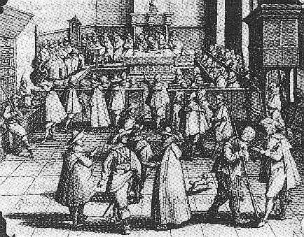 Court of Frisia, Netherlands